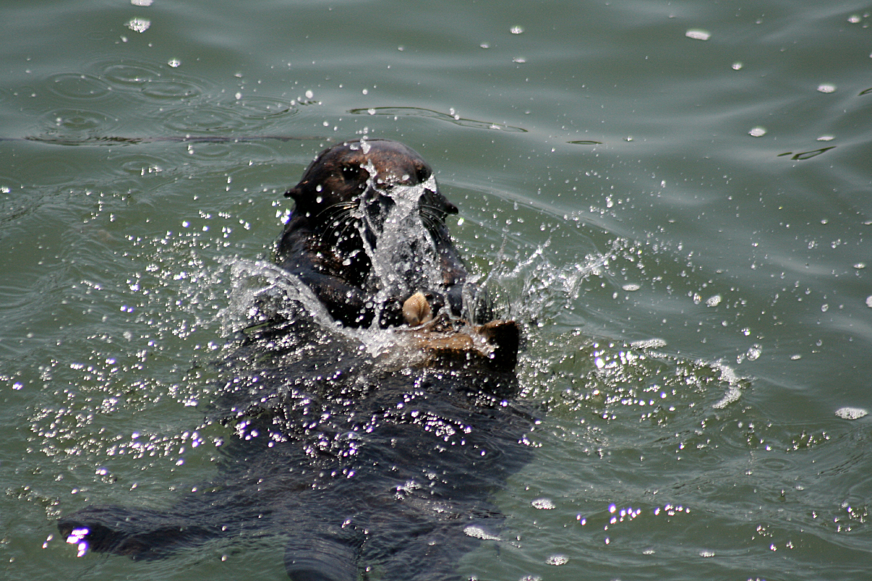 Sea Otter uses a rock to brake a shell open